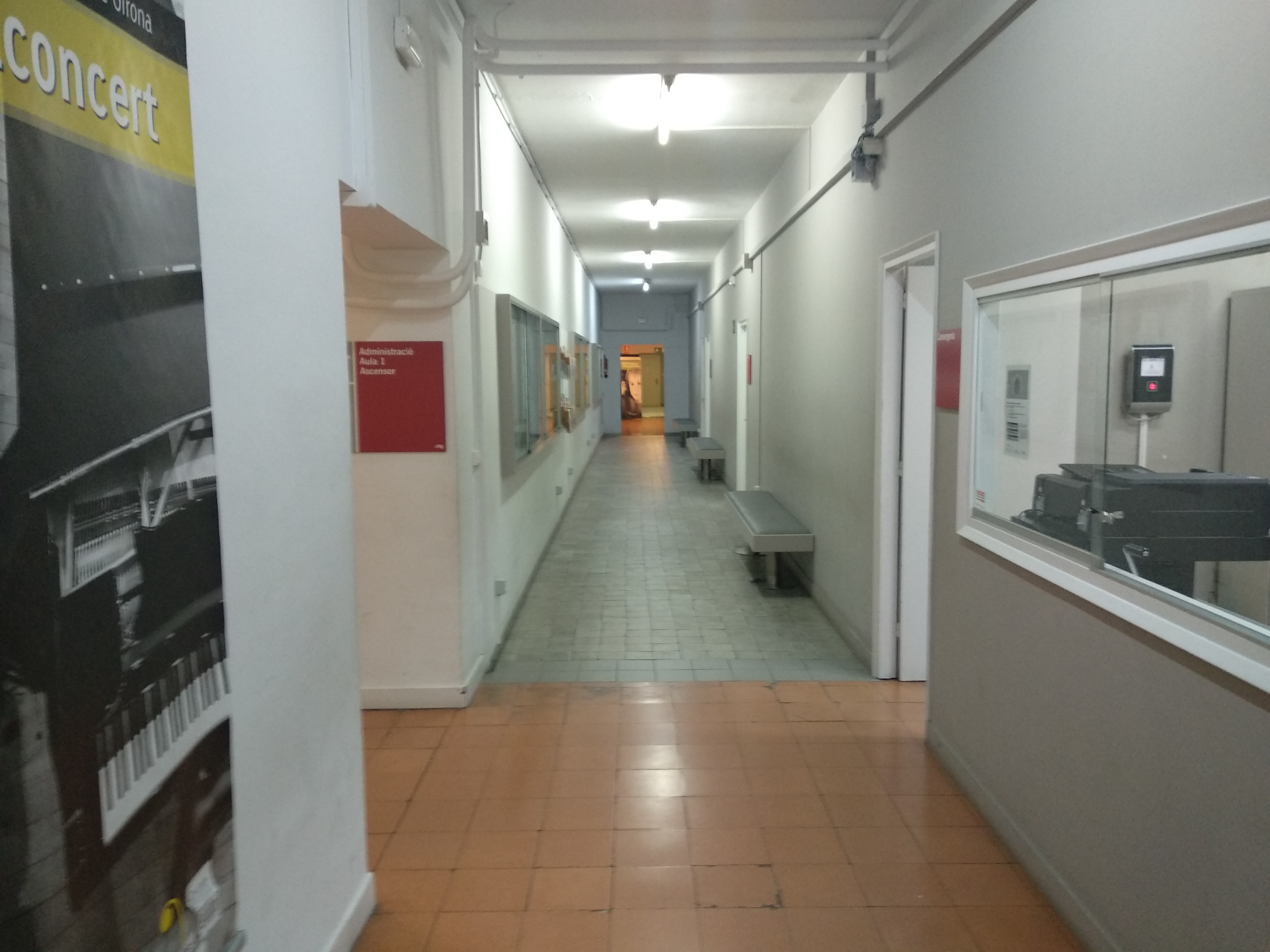 Corridor